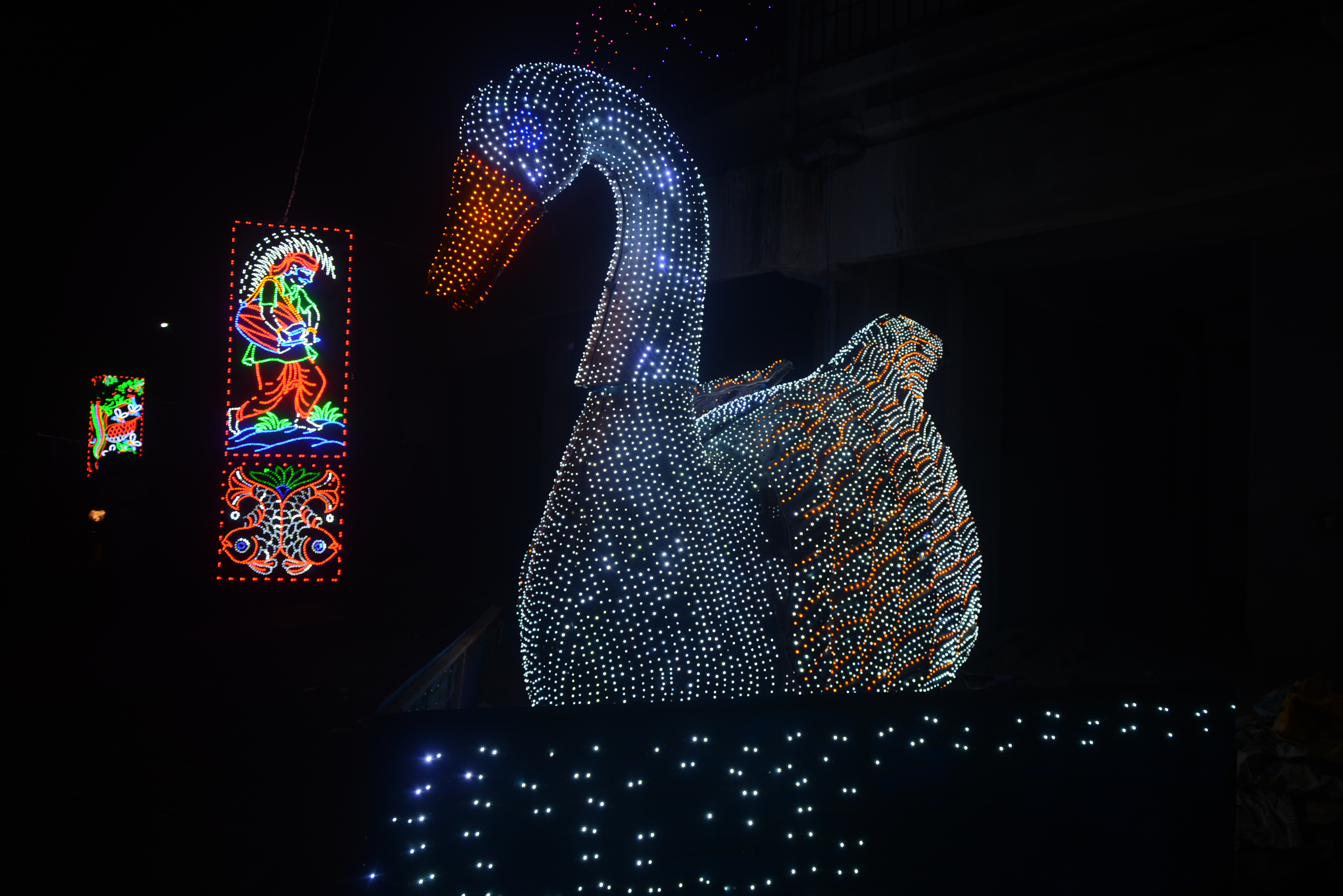 Lighting in Chandannagar during Jaggadhatri Puja 2016.